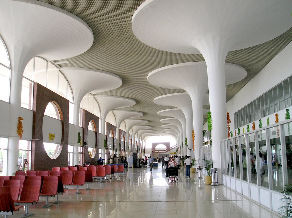 Zia International Airport, Dhaka